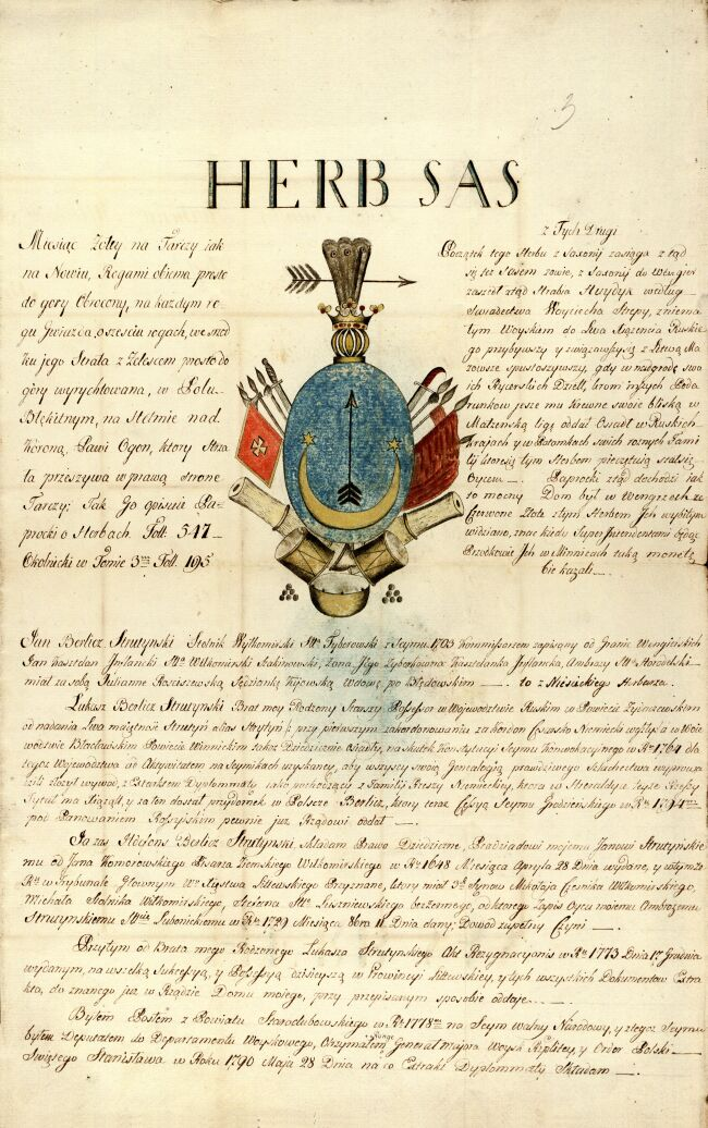 Family list of Ildefons Berlicz Strutynski, ca. 1797